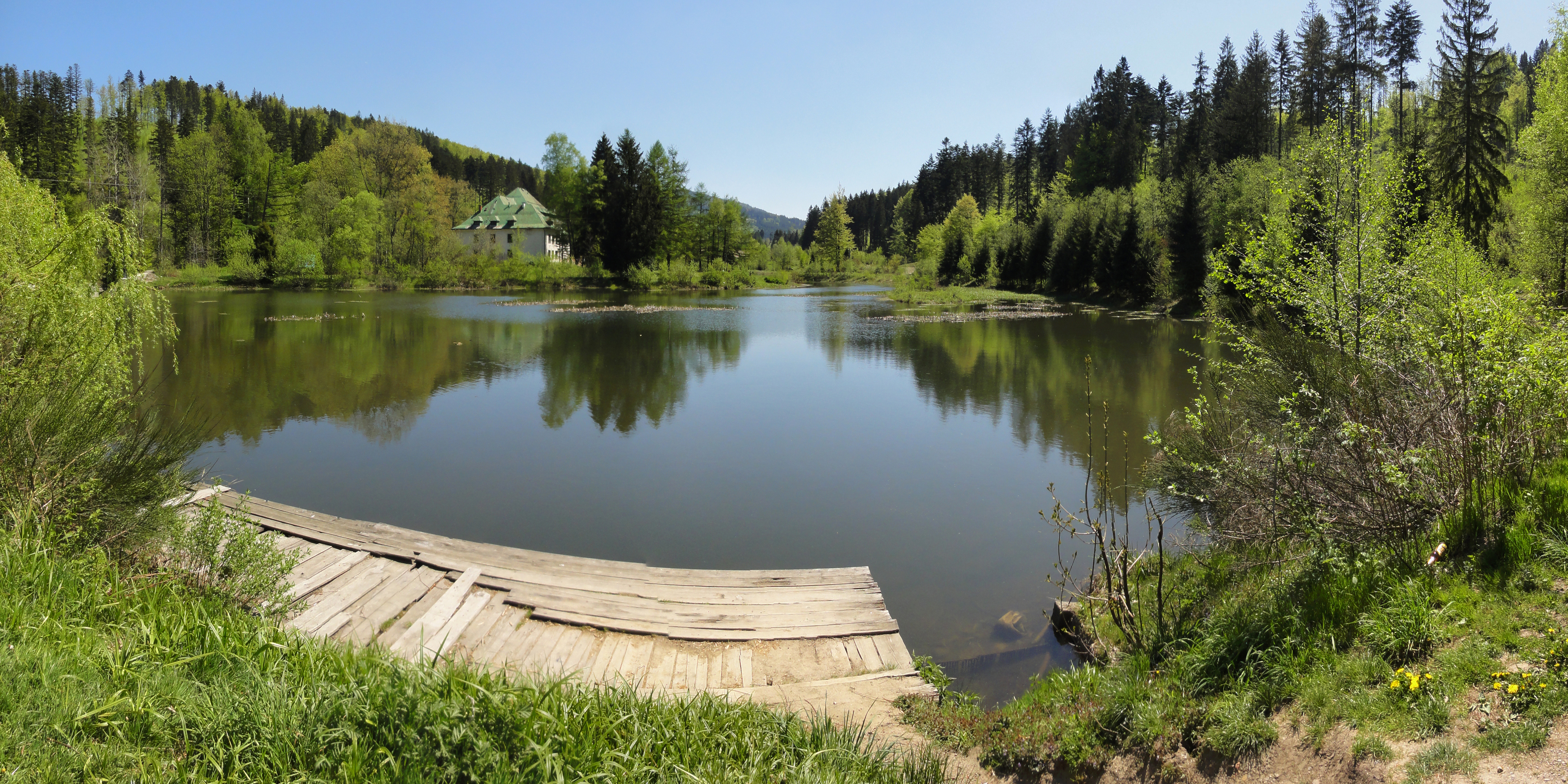 Small lake on Wisełka Stream in Wisła-Czarne